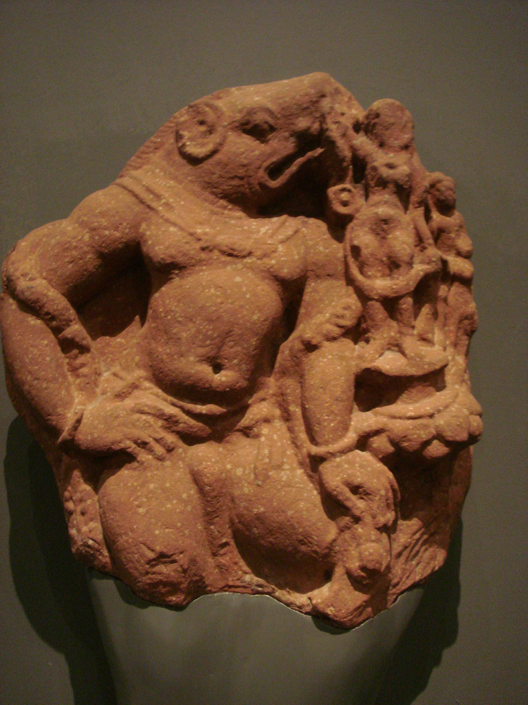 India, Uttar Pradesh, Mathura, South Asia Varaha, the Boar Avatar of Vishnu, 3rd century Sculpture; Stone, Mottled red sandstone, 22 1/2 x 20 3/8 x 4 1/4 in. (57.15 x 51.75 x 10.8 cm) From the Nasli and Alice Heeramaneck Collection, Museum Associates Purchase (M.72.53.8) Wikipedia Loves Art at the Los Angeles County Museum of Art This photo of item # M.72.53.8 at the Los Angeles County Museum of Art was contributed under the team name "ARTiFACTS" as part of the Wikipedia Loves Art project in February 2009. Los Angeles County Museum of Art The original photograph on Flickr was taken by sisleyceli—please add a comment to the original Flickr page whenever a use has been made on Wikipedia or another project. Project galleries on Flickr: this institution, this team